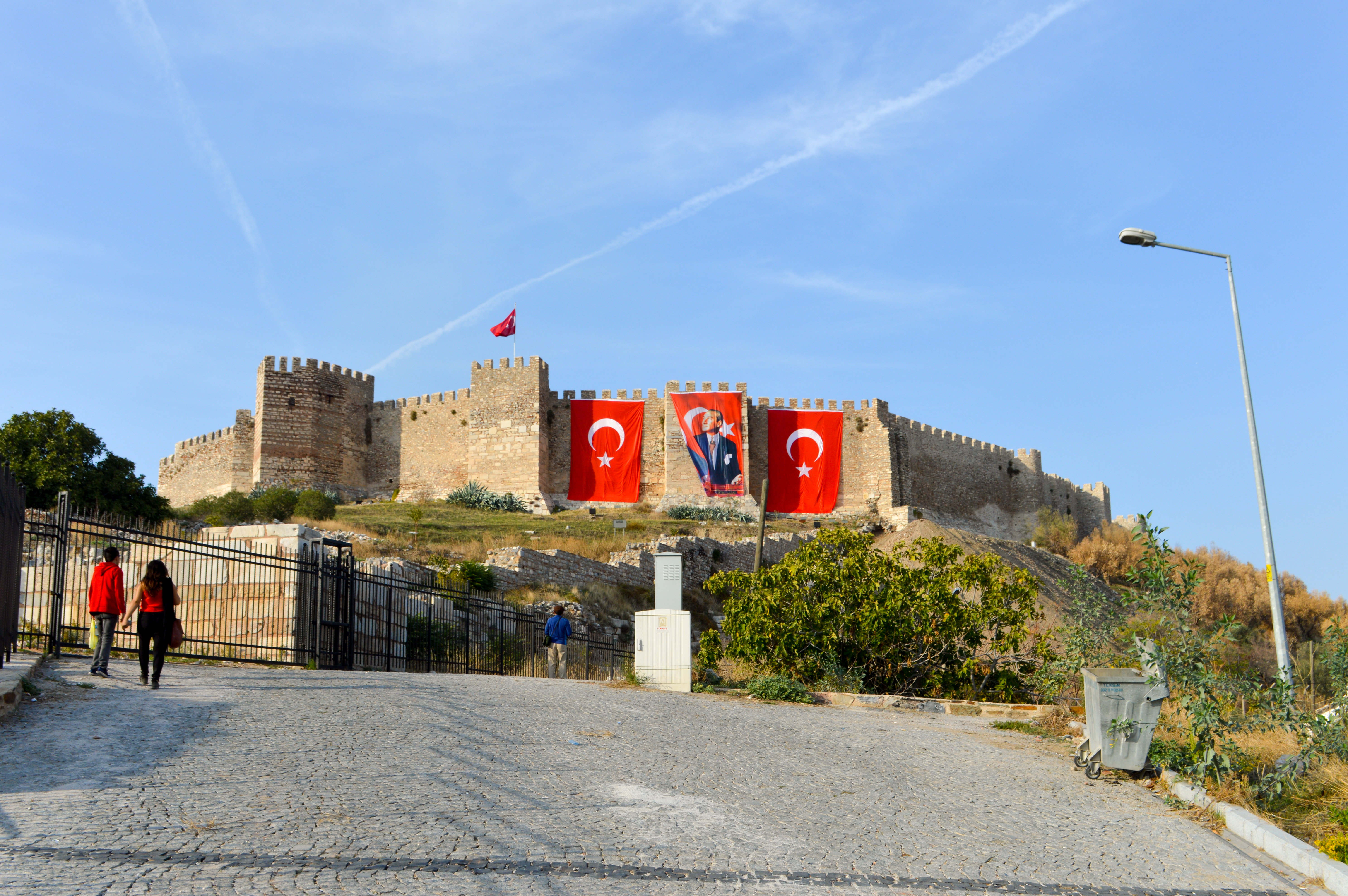 Byzantine fortress in Selçuk